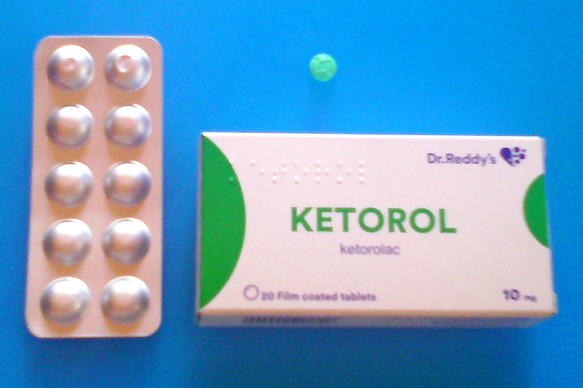 Ketorolac, sold under the brand name Toradol among others, is a nonsteroidal anti-inflammatory drug (NSAID) used to treat pain.